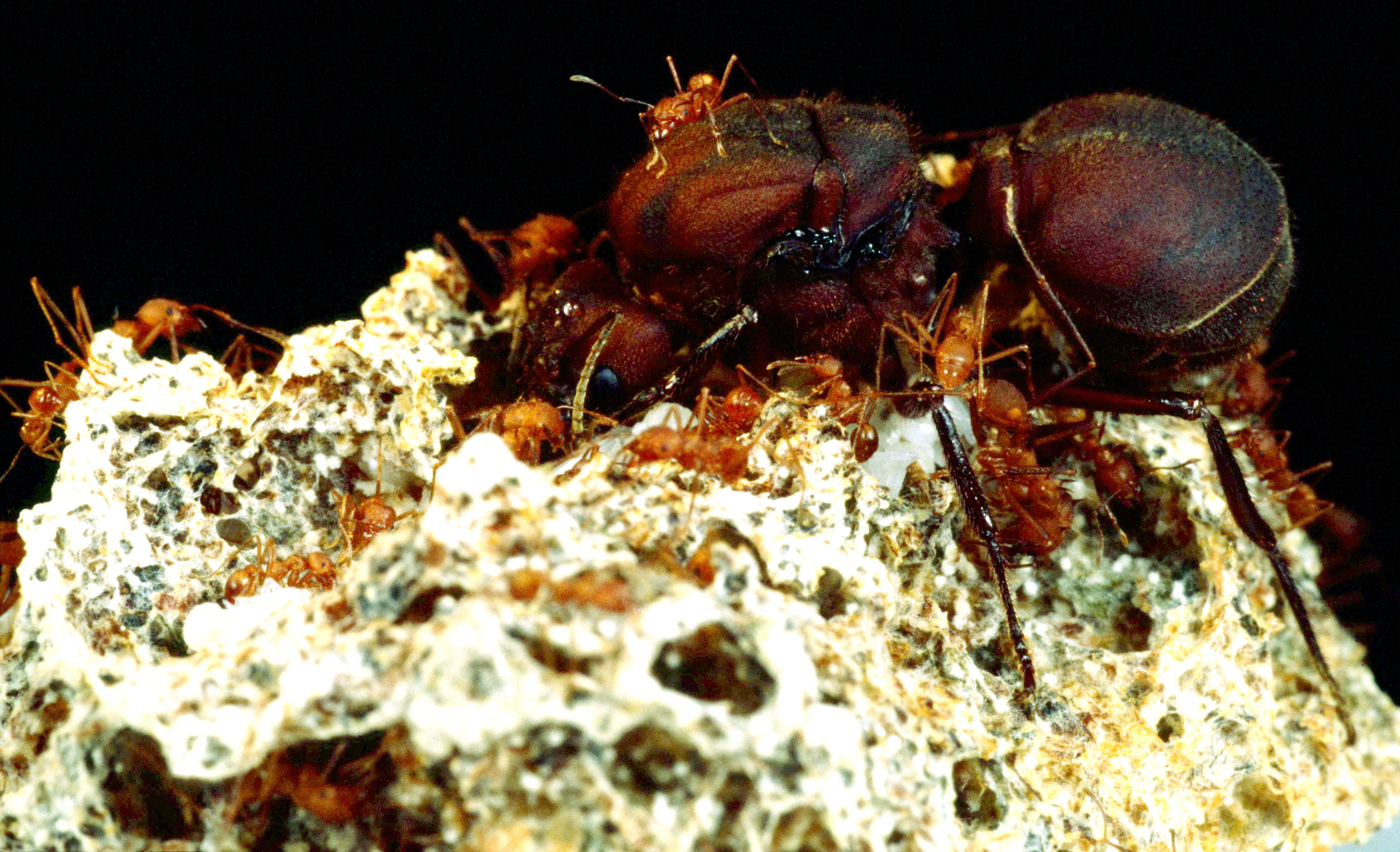 Atta columbica (ant queen) Same image, after brightening up, as Image:Atta colombica queen.jpg